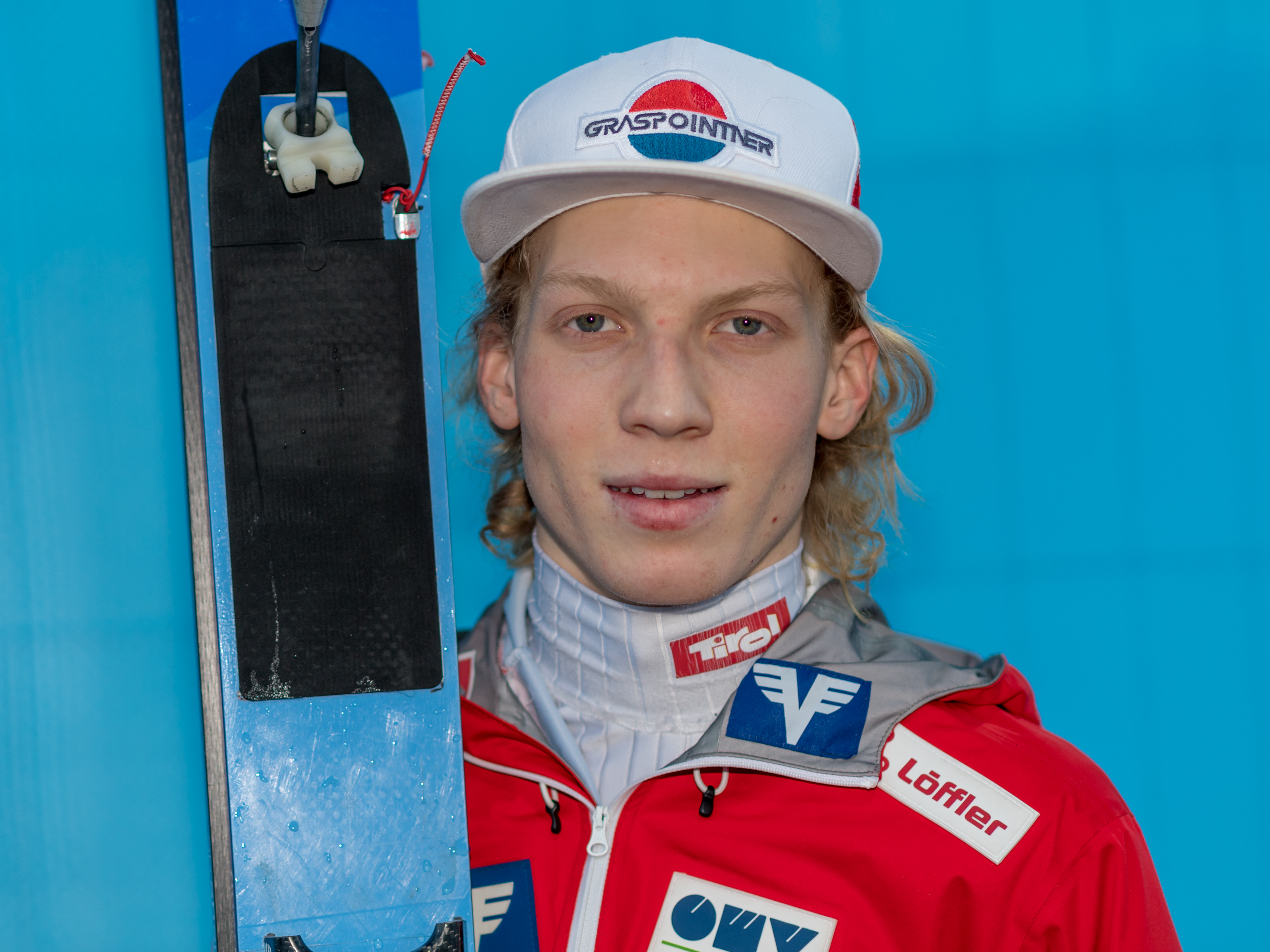 Seefeld, February 28, 2019: FIS Nordic World Ski Championships, Ski Jumping Qualification.